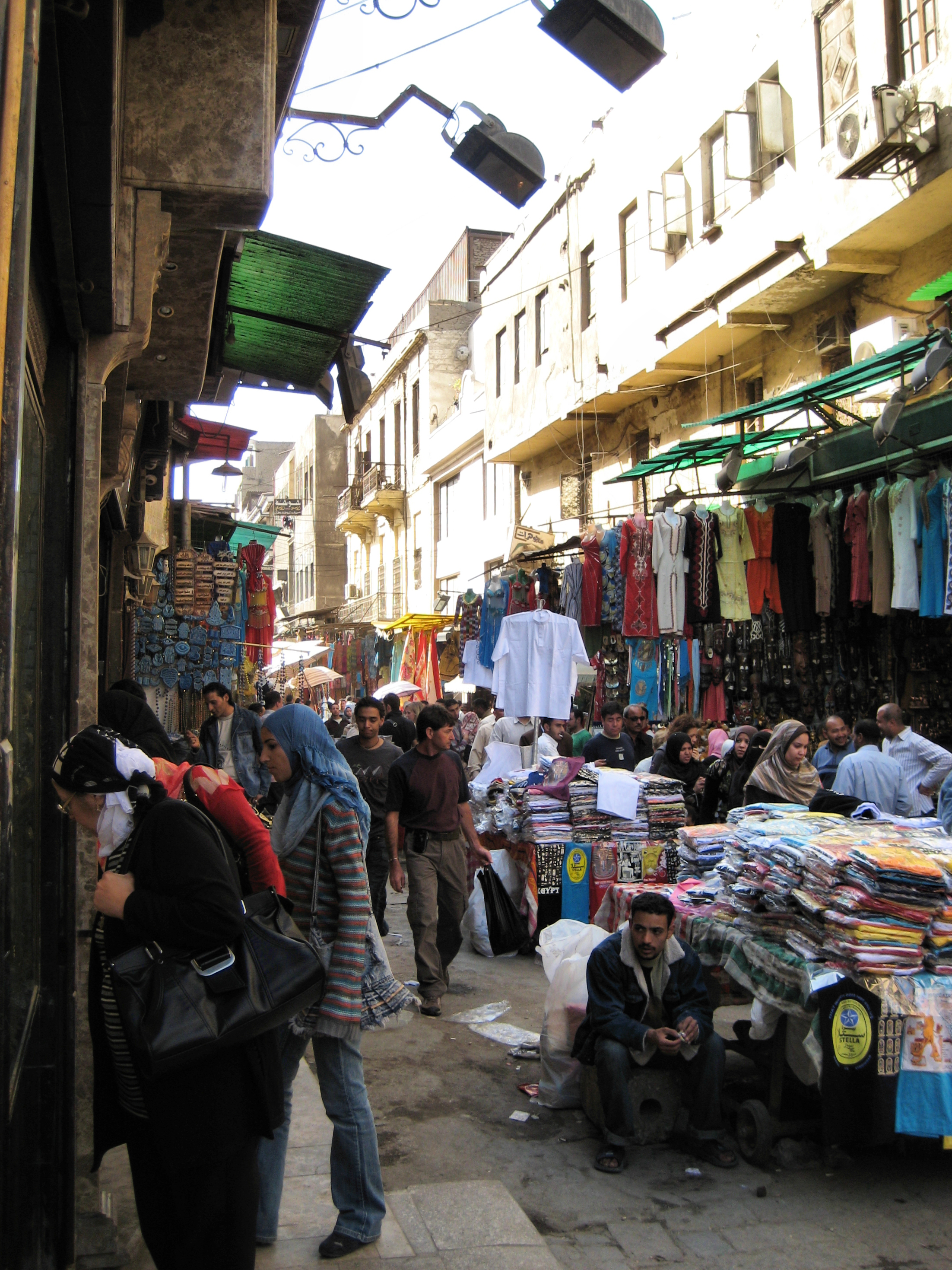 Old Cairo Market